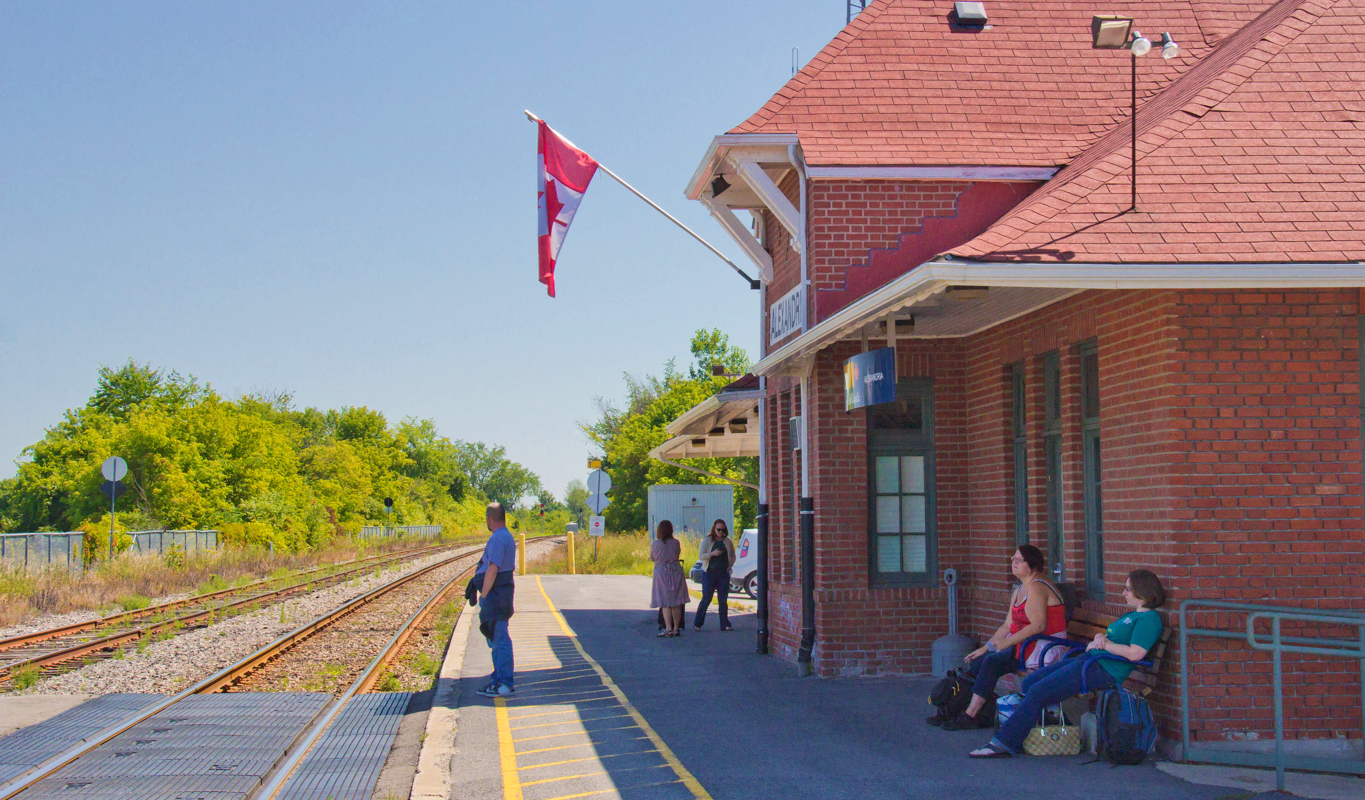 Waiting for the 12:20 to Montreal at Alexandria, Ontario railway station in Canada.